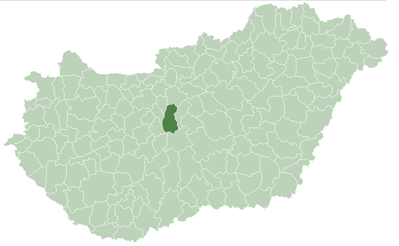 Location of subregion Ráckeve, Hungary